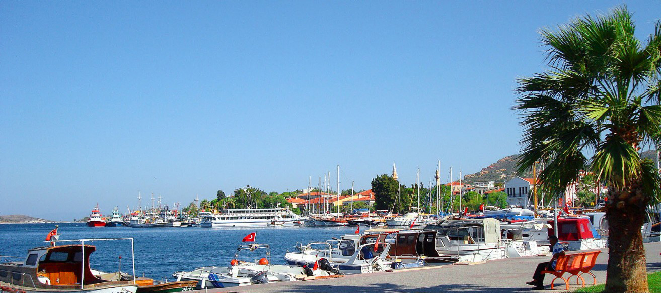 Foça (ancient Phocaea) near İzmir on Turkey's Aegean coast